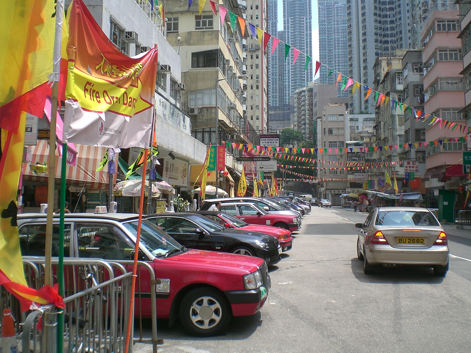 2008年9月15日大坑舞火龍期間 @ 大坑浣紗街